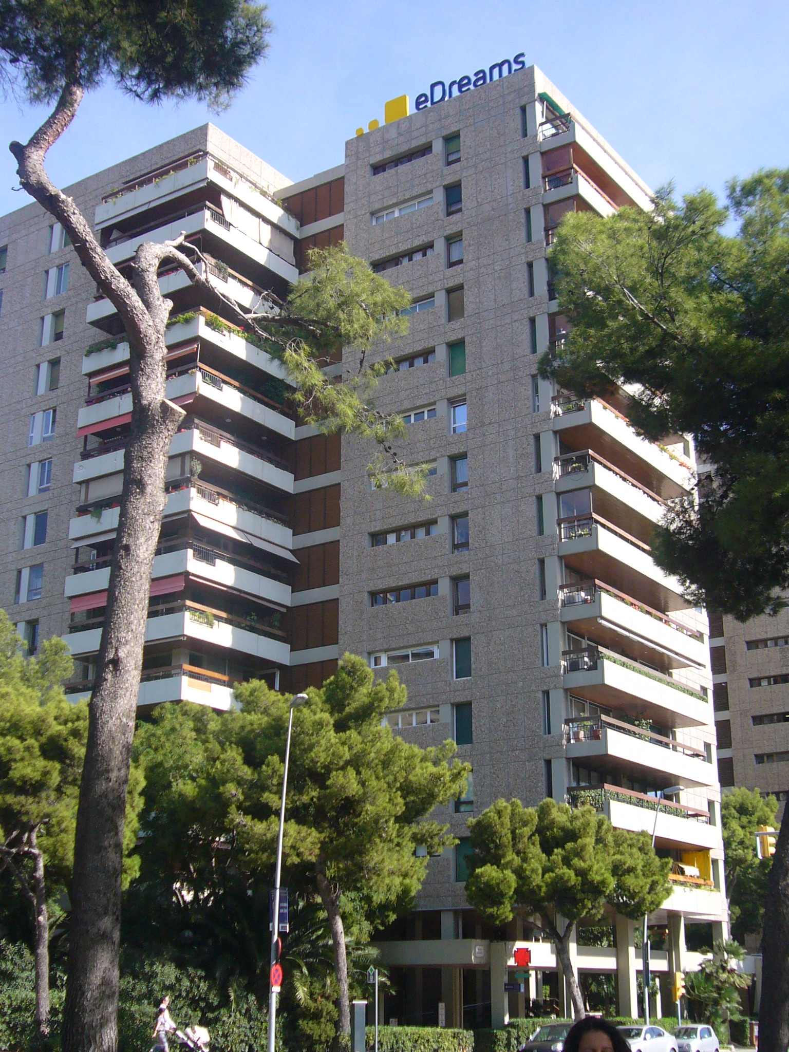 eDreams ad, at the junction of Av Diagonal - Av Sarrià, in Barcelona